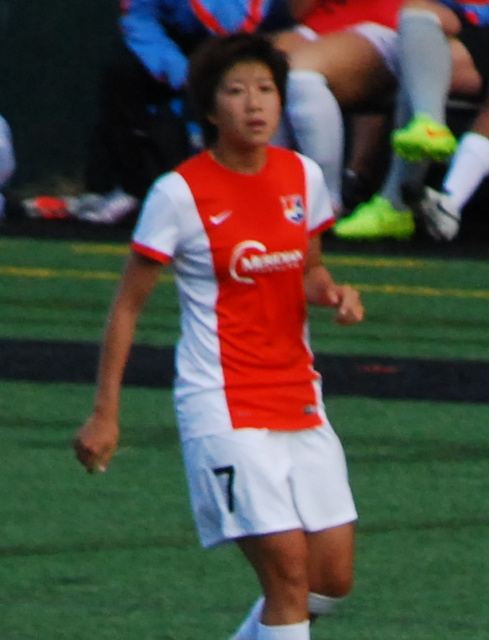 Seattle Reign FC vs Sky Blue FC Memorial Stadium, Seattle Center Seattle, WA June 28, 2014